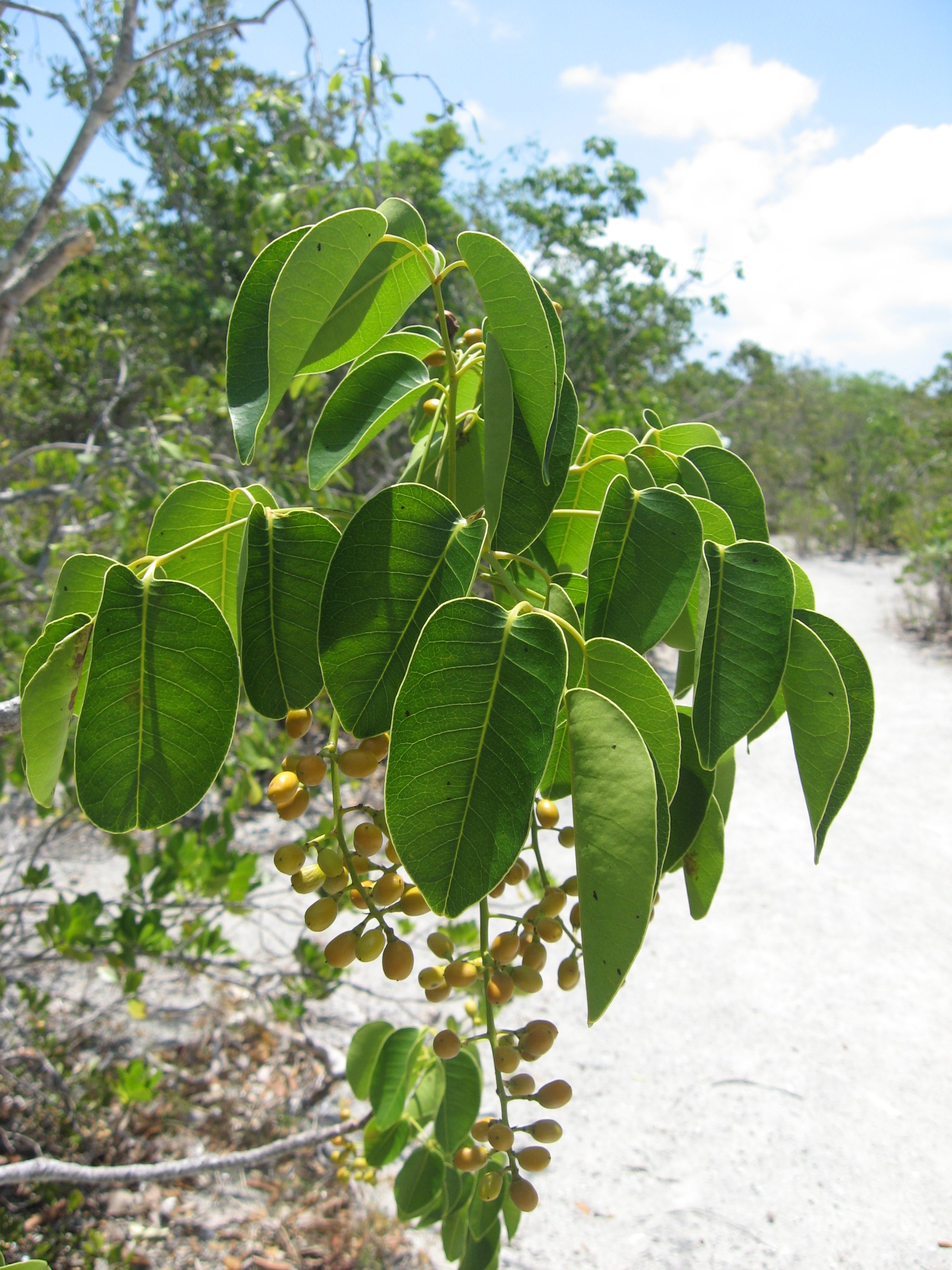 Metopium toxiferum, at Long Key State Park, Monroe County, Florida.